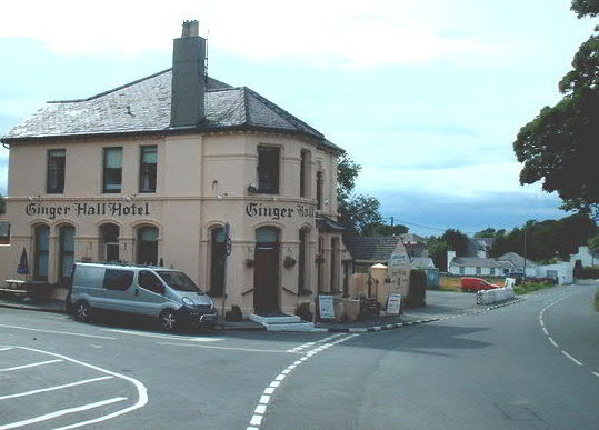 Ginger Hall Hotel at Sulby. One of the historic landmarks on the T.T. motorcycle race course, and a traditional vantage point with coach parking adjacent, conveying visitors without their own transport from Douglas town.